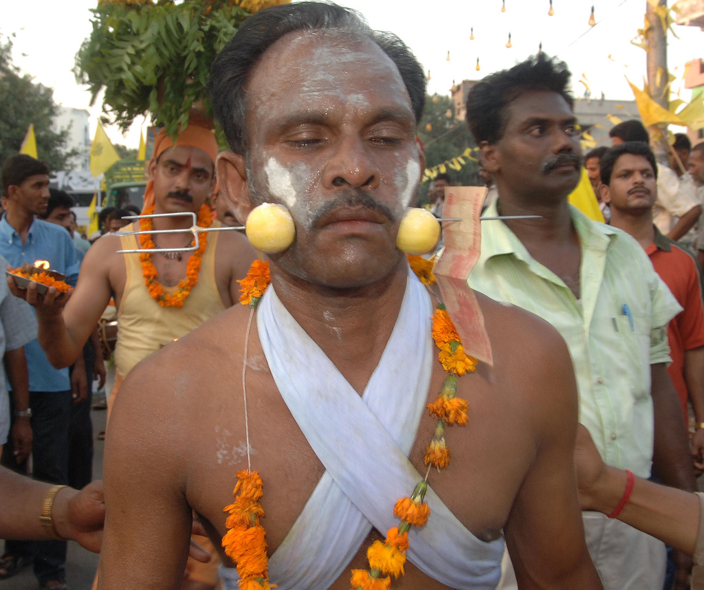 Hindu devotee with garland of marigolds around his neck, a trident piercing two lemons and his cheeks. Original caption: "Pierced for Peace" A devotee participating in a religious procession with his cheeks pierced with a sharp trident and lemons bothsides. A painful way to seek peace from the God.